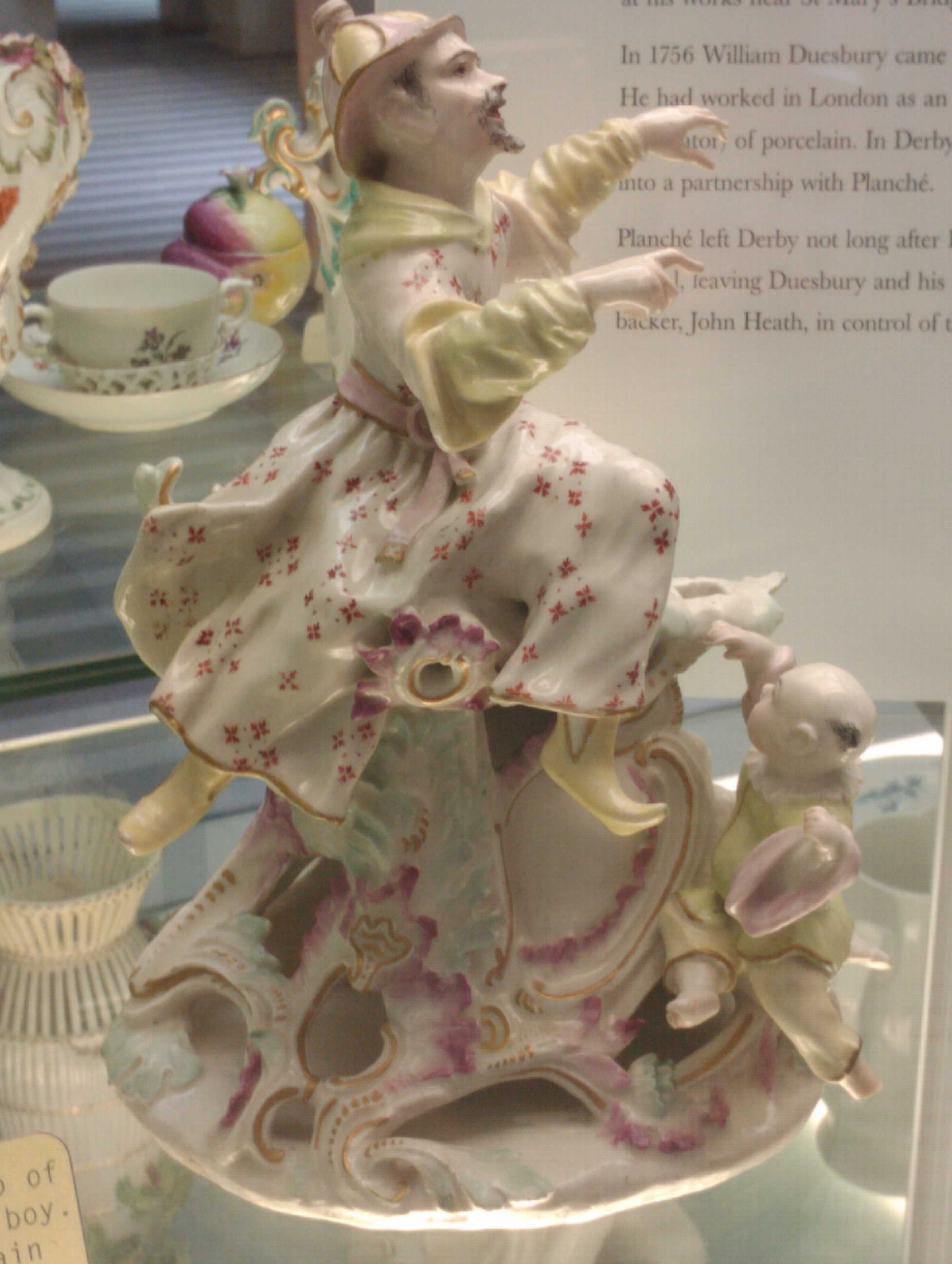 Chinaman Boy treasure in Derby Museum and Art Gallery